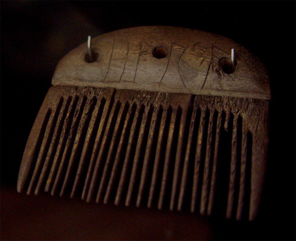 A comb made of antler from around 150 to 200 CE and was found in Vimose on the island of Funen, Denmark. The Elder Futhark inscription reads "Harja", a male name. This is the oldest known runic inscription. The comb is housed at the National Museum of Denmark.